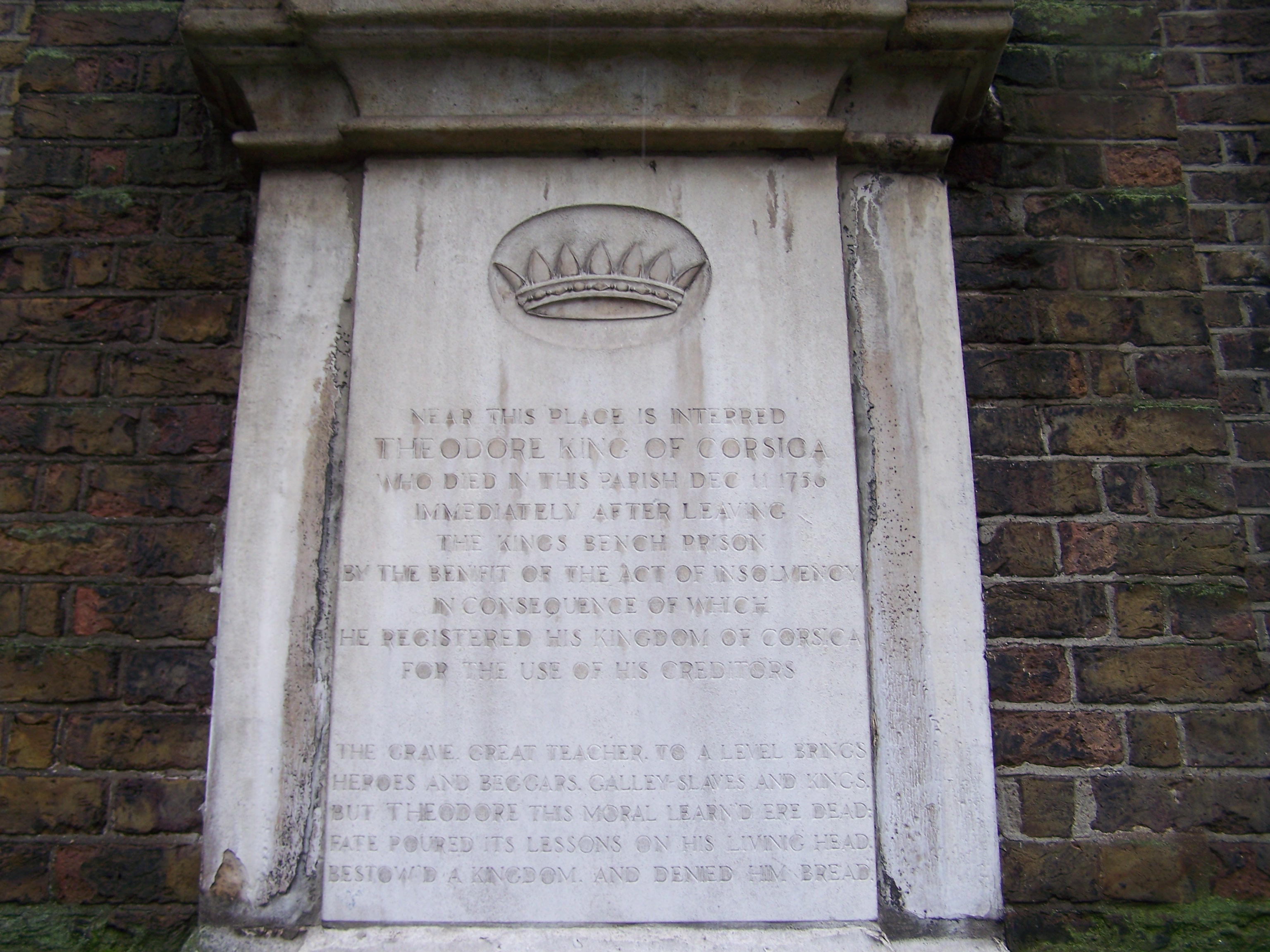 Monument of king of Corsica